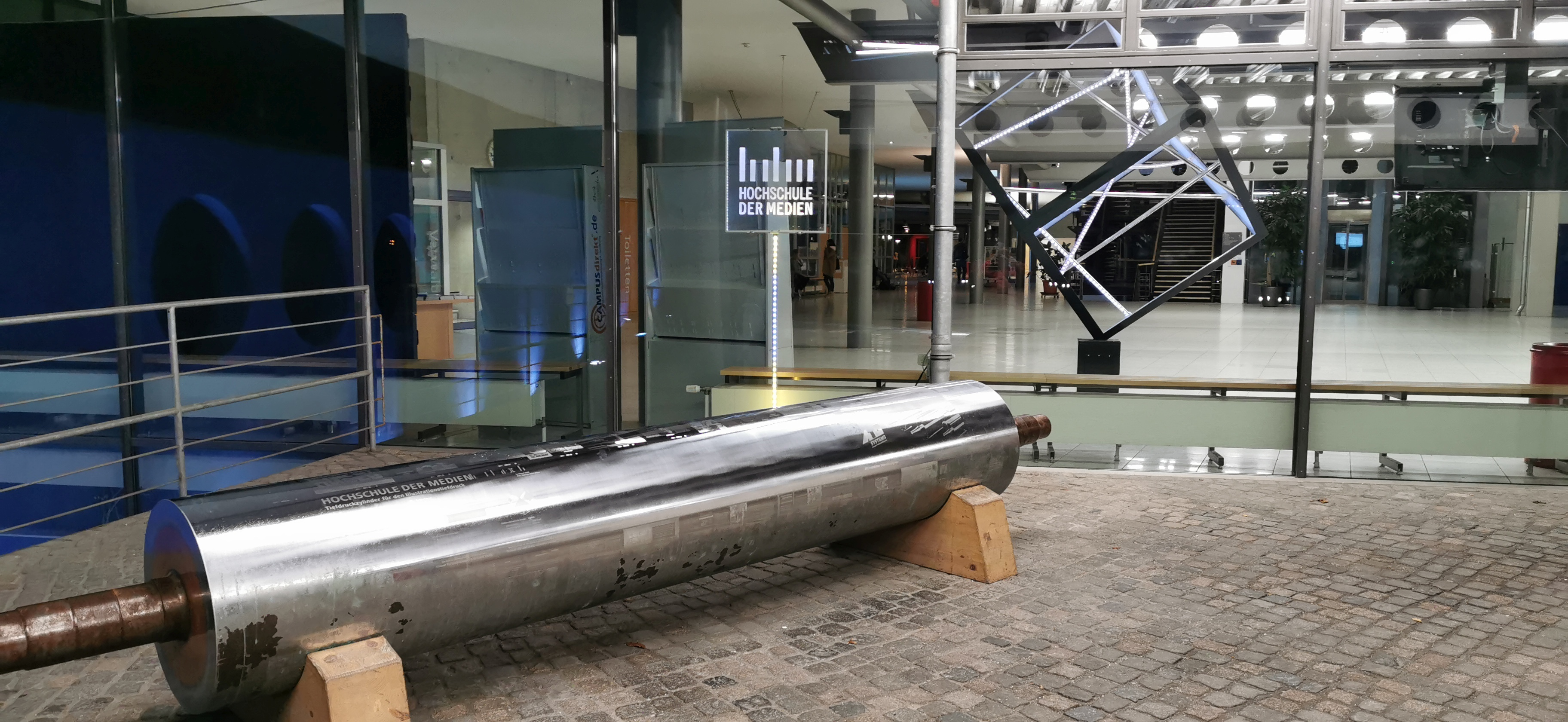 Eingang der Hochschule der Medien in Stuttgart, mit einem Chorm Tiefdruckzylinder